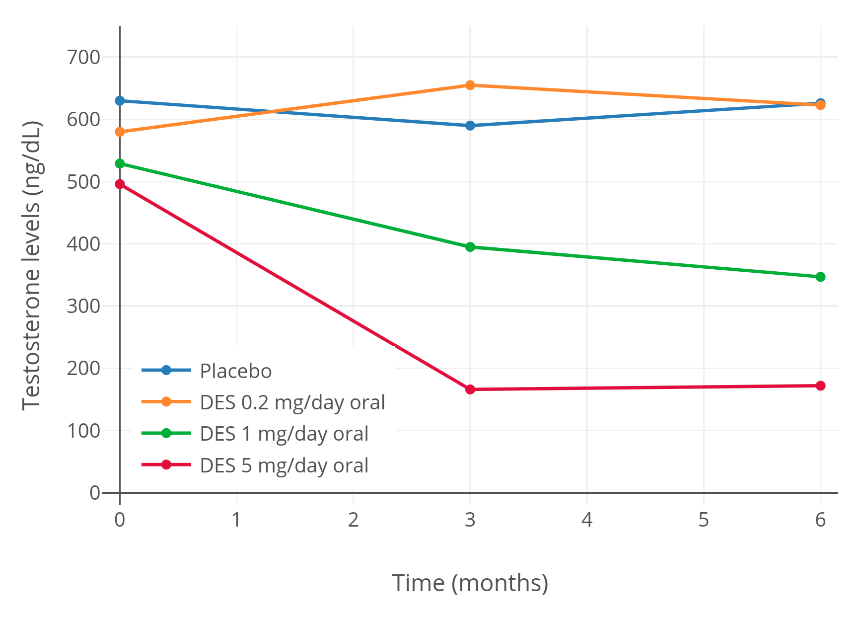 Levels of testosterone (ng/dL) with placebo and 0.2, 1, and 5 mg/day oral diethylstilbestrol over 6 months in men with prostate cancer. Determinations were made using radioimmunoassay. Source of the values: (May 1973). "Estrogen dosage and suppression of testosterone levels in patients with prostatic carcinoma". J. Urol. 109 (5): 858–60. PMID 4699685.